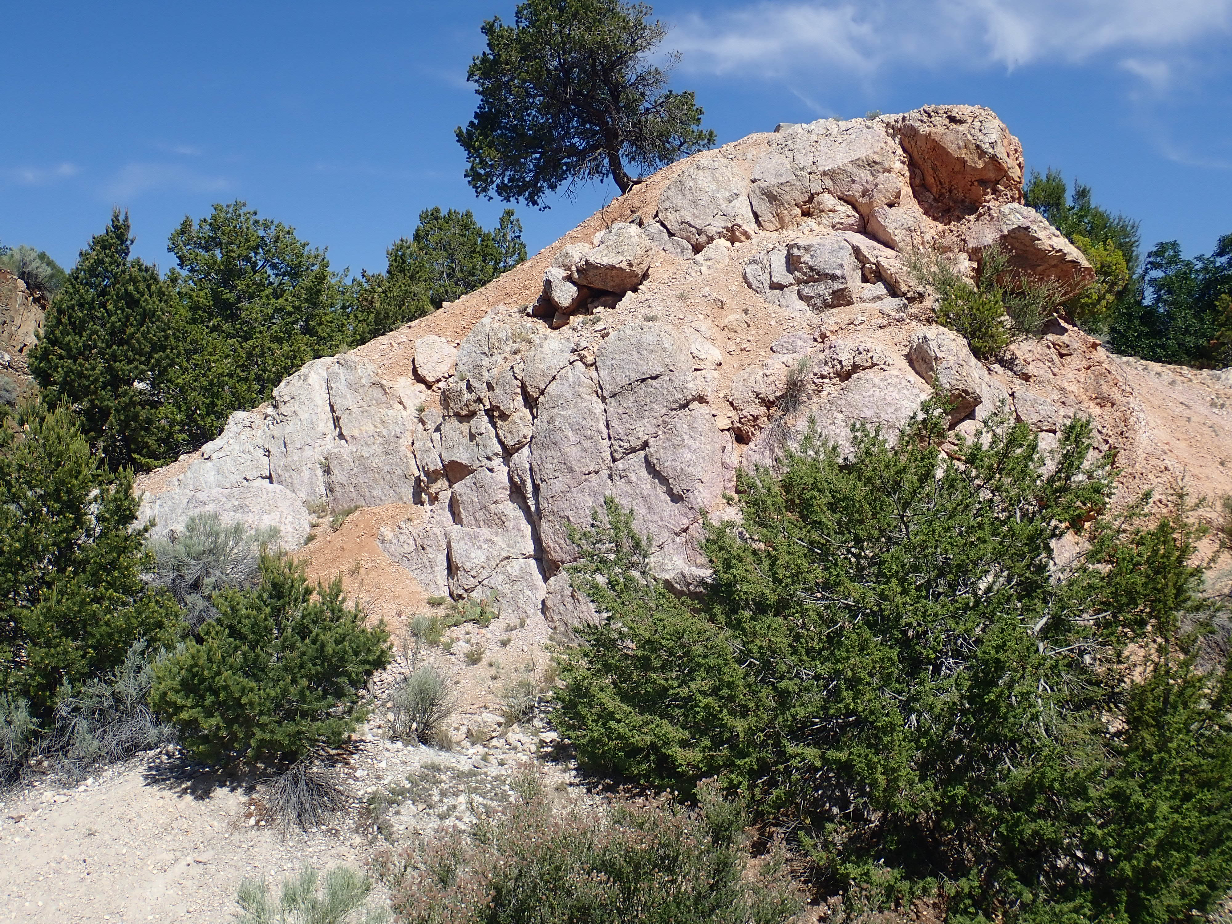 This knoll is located at the center of the Harding Pegmatite Mine main quarry, New Mexico, United States. It is composed of the "spotted rock" making up the core of the pegmatite body.